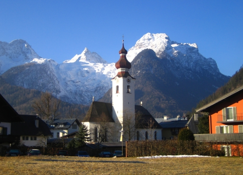 View on church in Lofer market town, Pinzgau region of Salzburg (state) in Austria. View to SW. Mountains: Großes Ochsenhorn 2513m, 's Kreuz 2466m, Breithorn 2413m, Anderlkopf 1475m